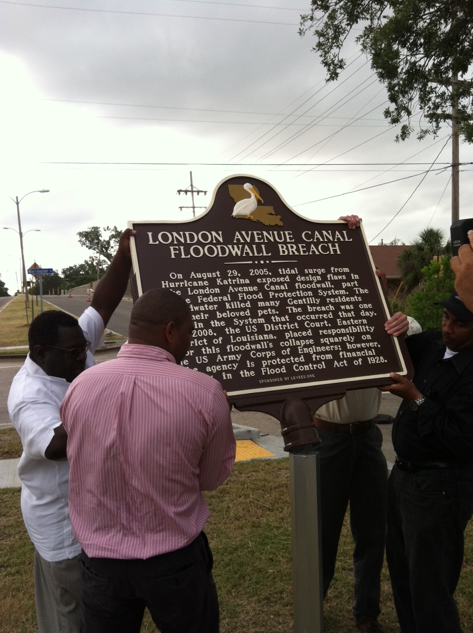 Louisiana State Historic Plaque at the site of the east-side levee breach of the London Avenue Canal in New Orleans